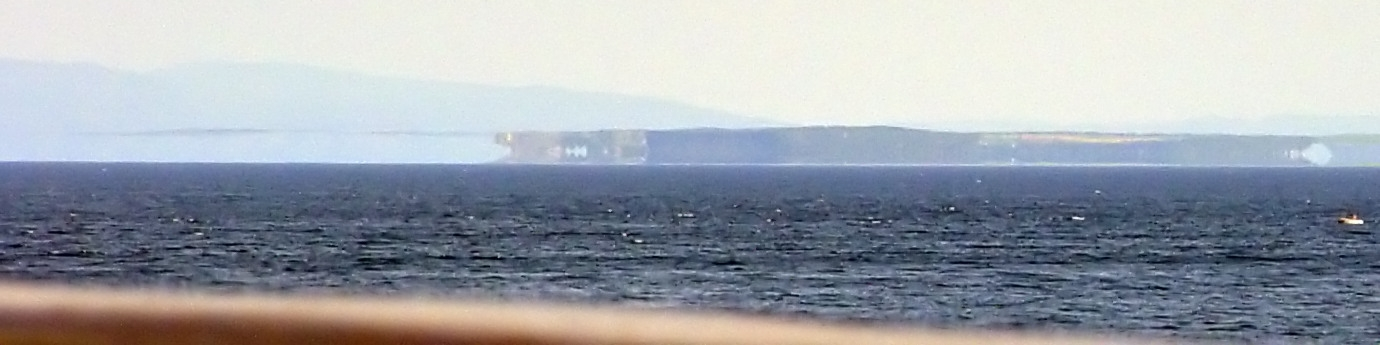 Fata Morgana seen on Norwegian coast: Just the hardly visible crest is on real position.